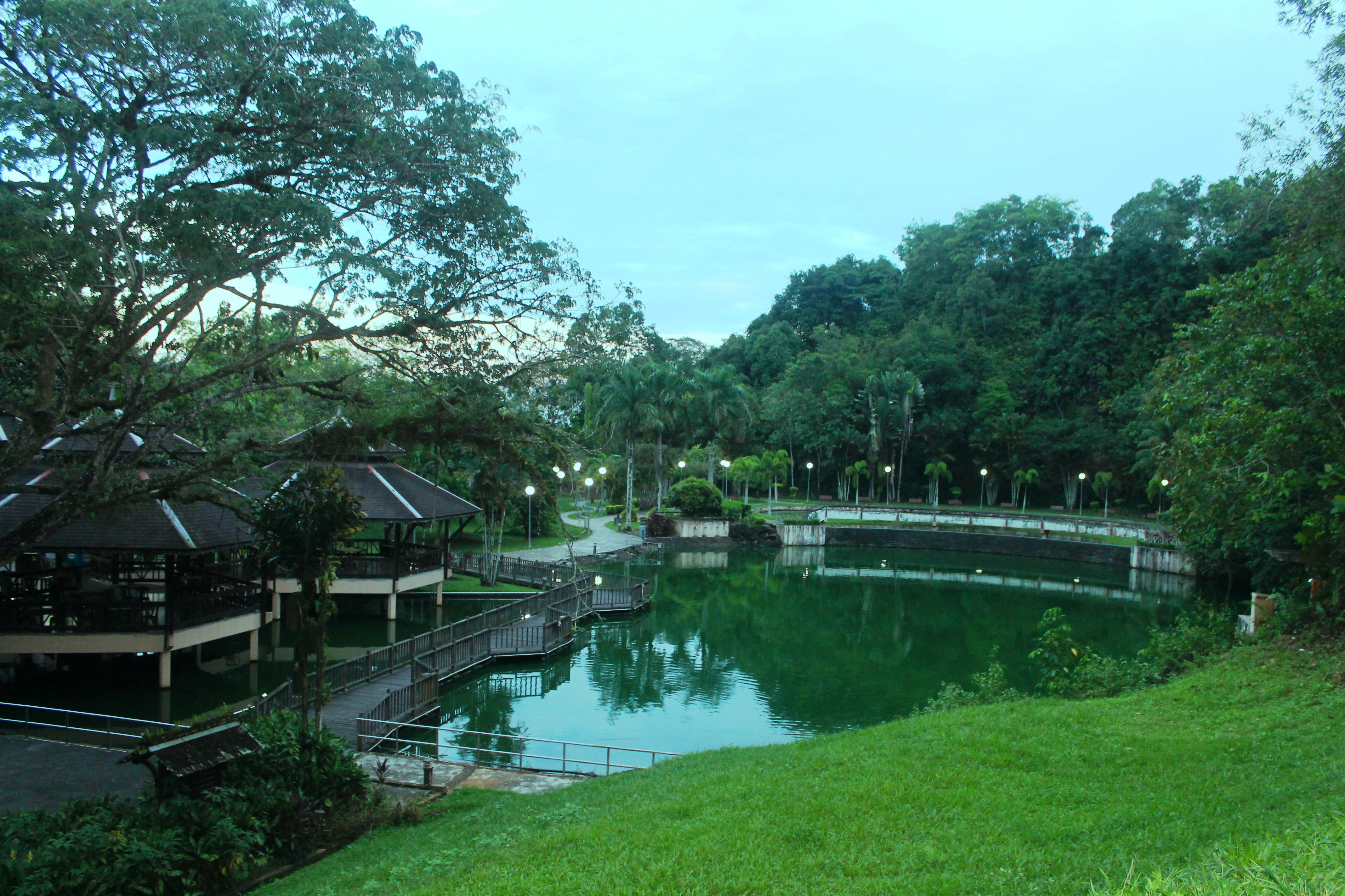 A view of cottages at the foot of the Bukit Aup hill.